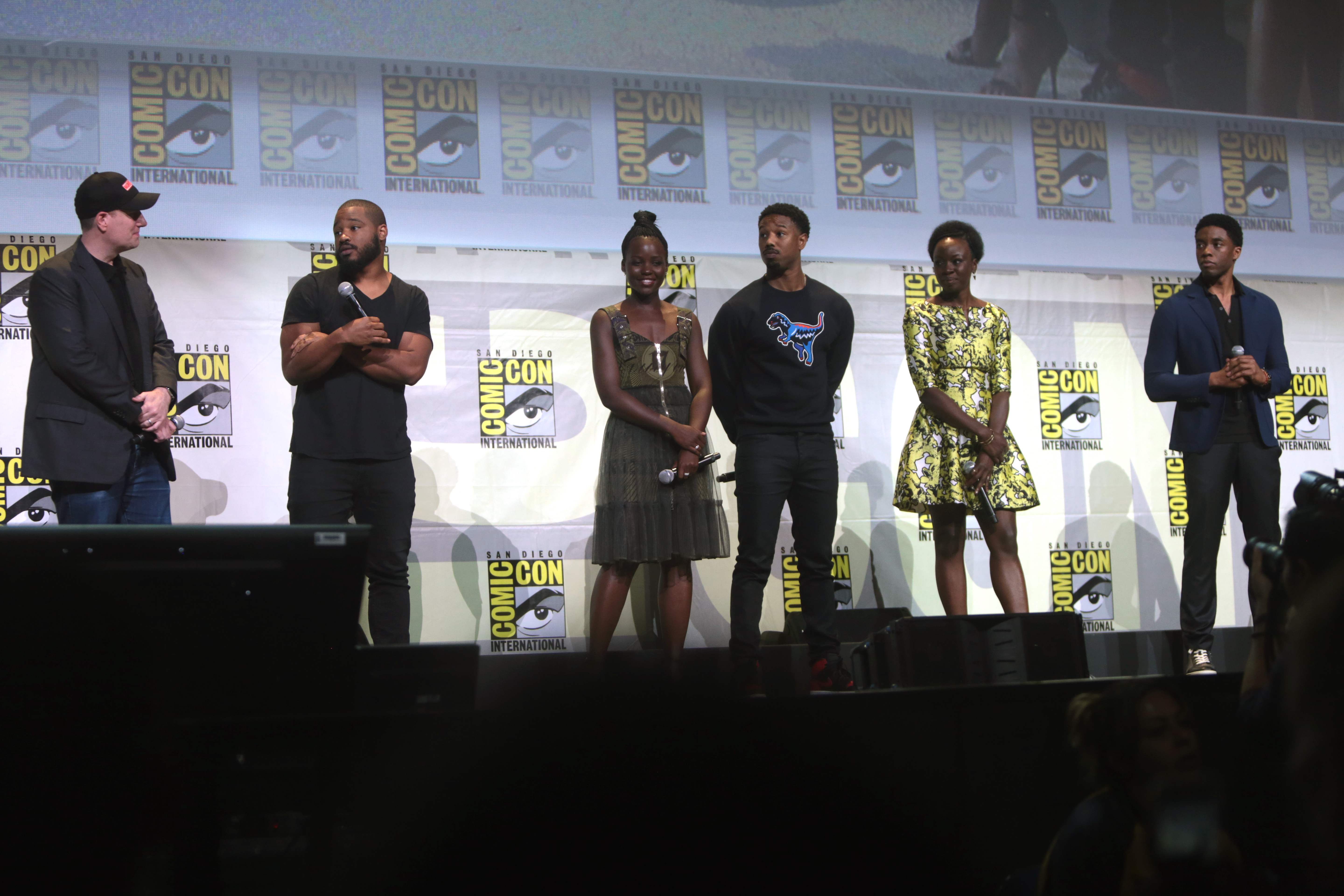 Kevin Feige, Ryan Coogler, Lupita Nyong'o, Michael B. Jordan, Danai Gurira and Chadwick Boseman speaking at the 2016 San Diego Comic-Con International, for "Black Panther", at the San Diego Convention Center in San Diego, California.